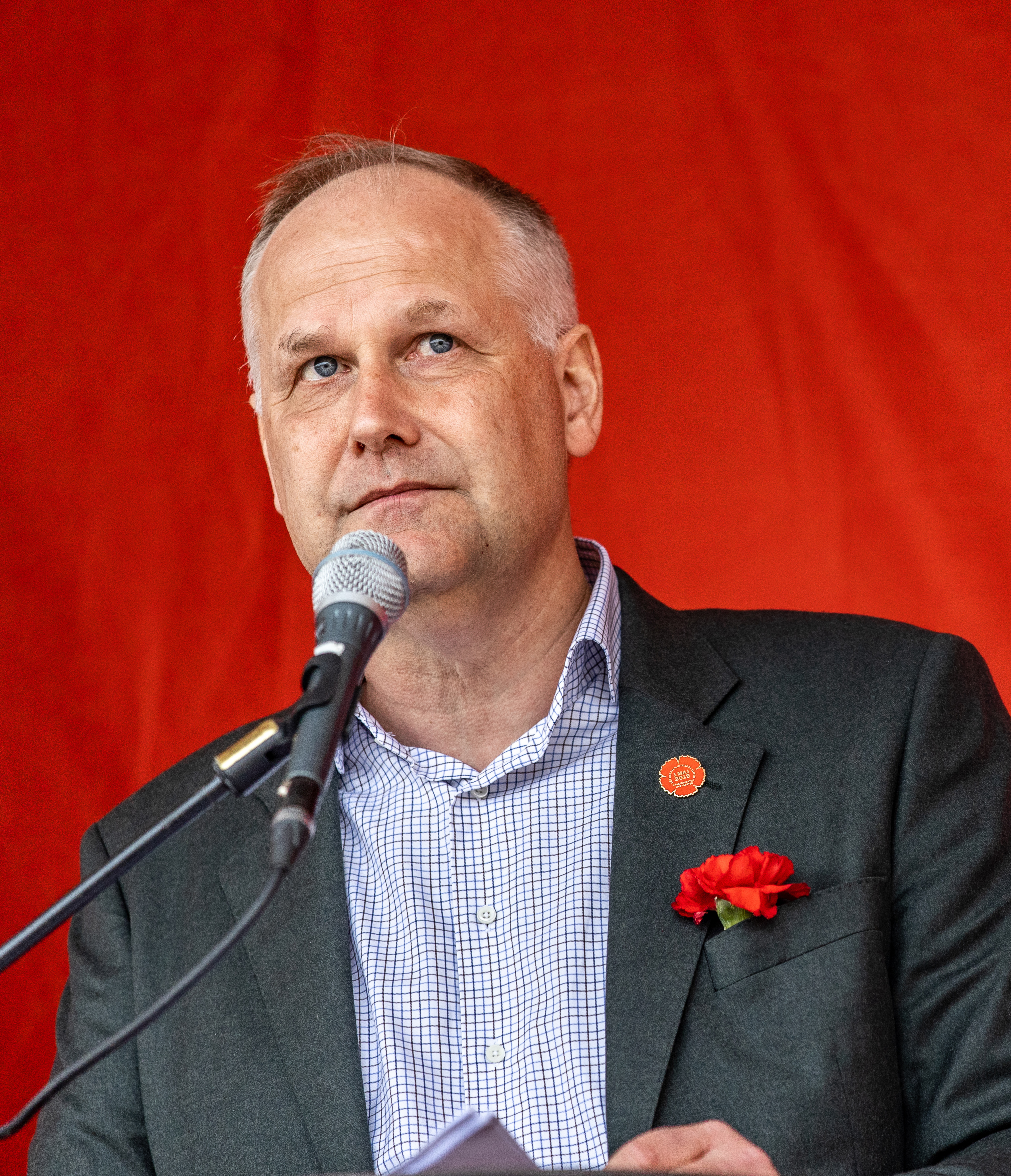 Jonas Sjöstedt, leader of the Swedish Left Party (Vänsterpartiet)